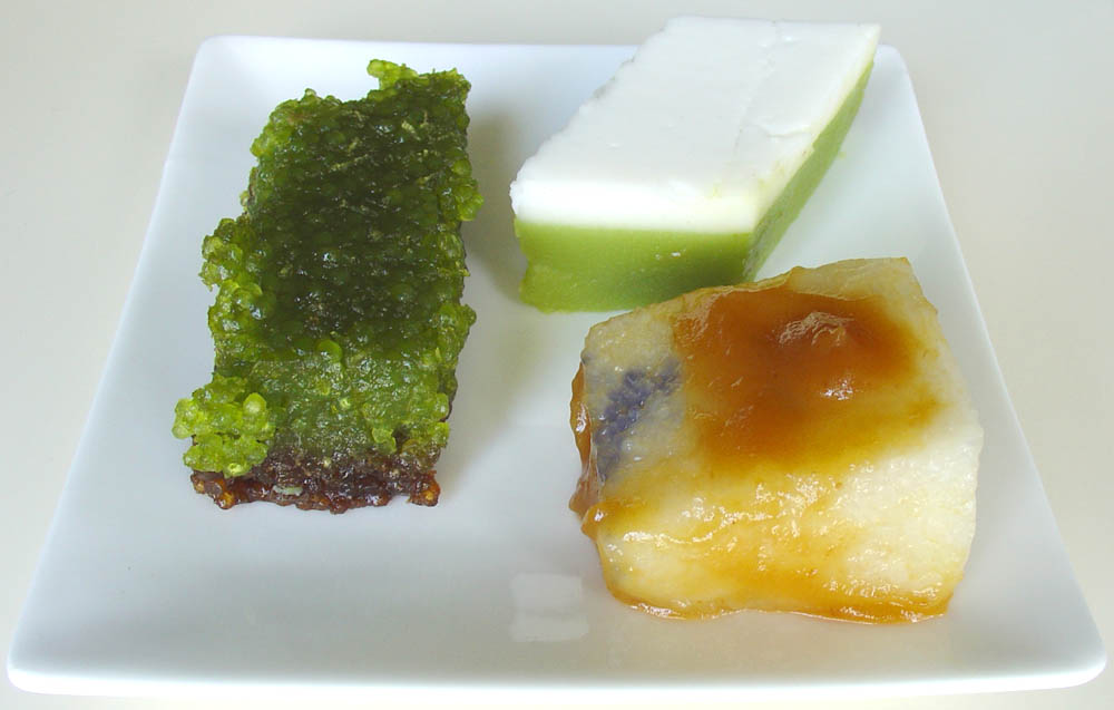 A small selection of Nyonya Kuih.